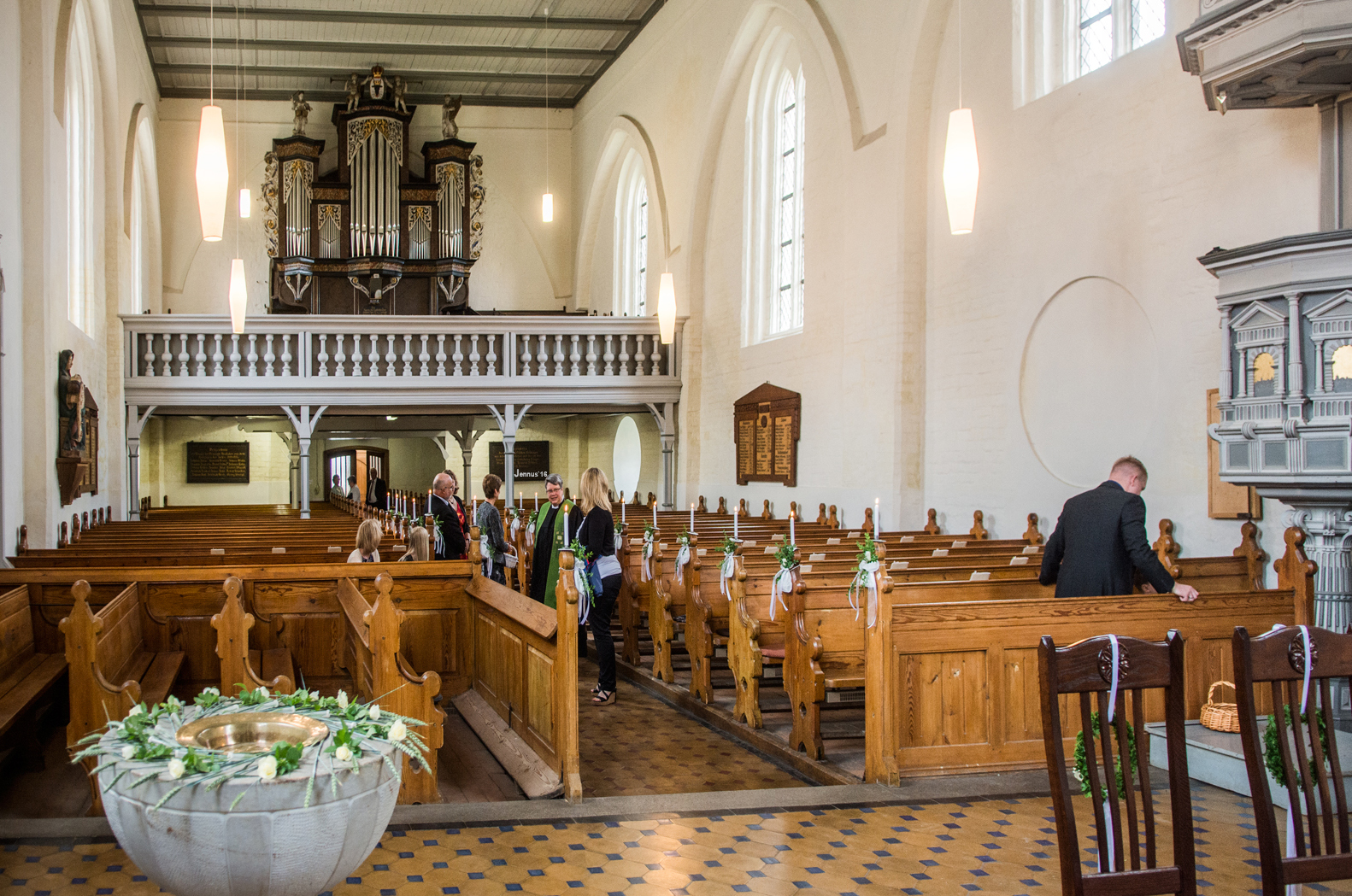 St. John Church Neukalen with Baroque organ by David Baumann